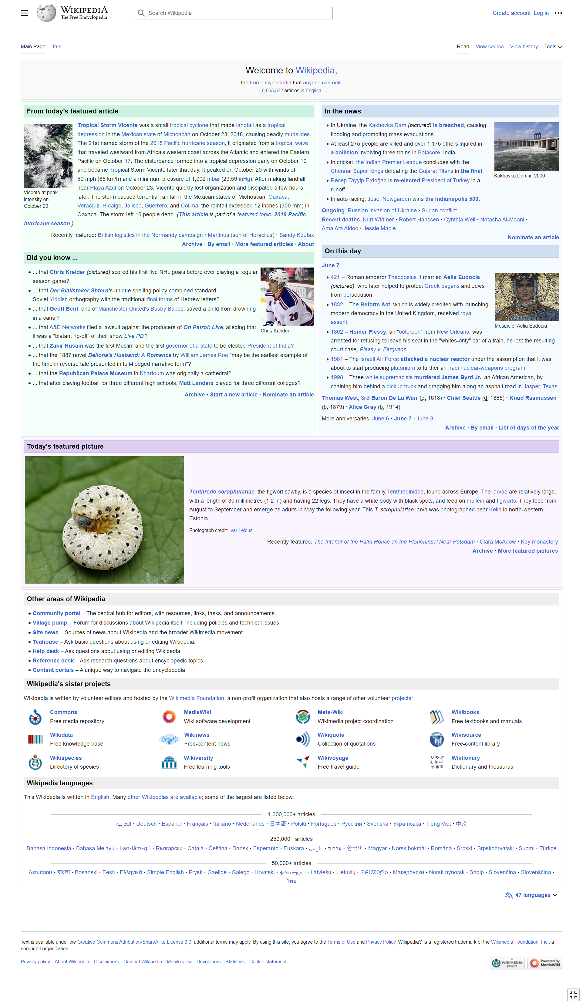 Screenshot of Wikipedia's homepage